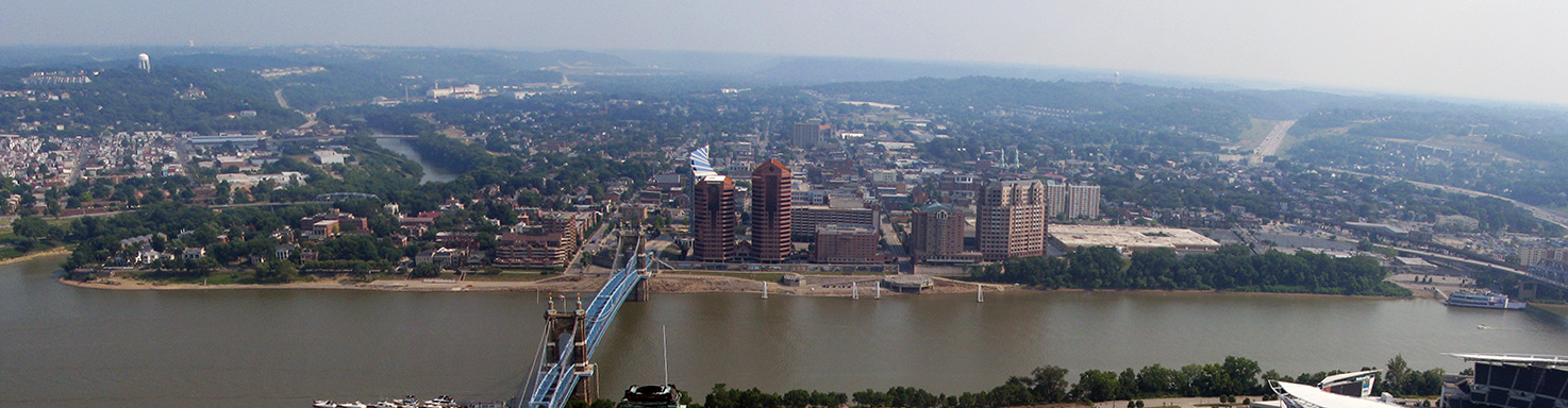 Skyline of Covington, Kentucky on July 19, 2008.